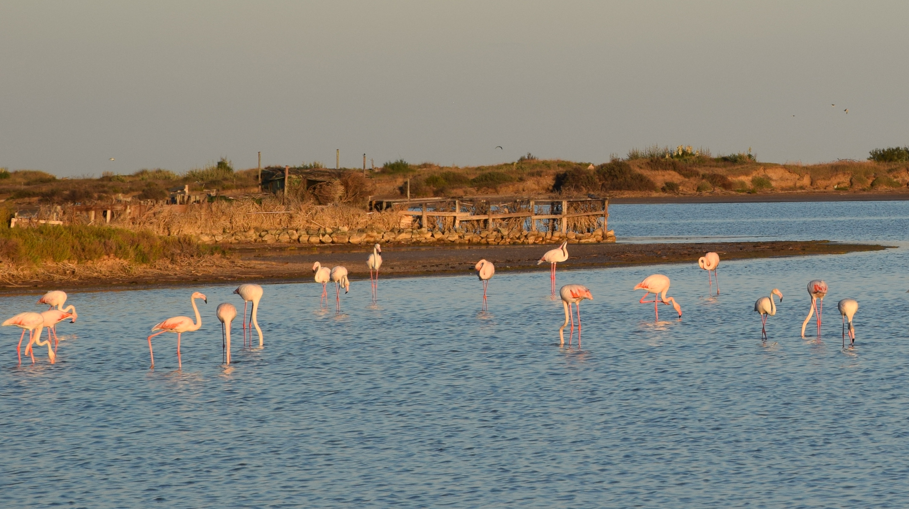 Étang de Pissevaches, Aude, France